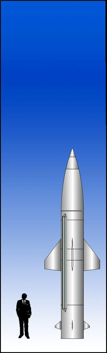 Prithvi SRBM (Short-range ballistic missile) Comparison. From left to right: *MAN *Prithvi (India)